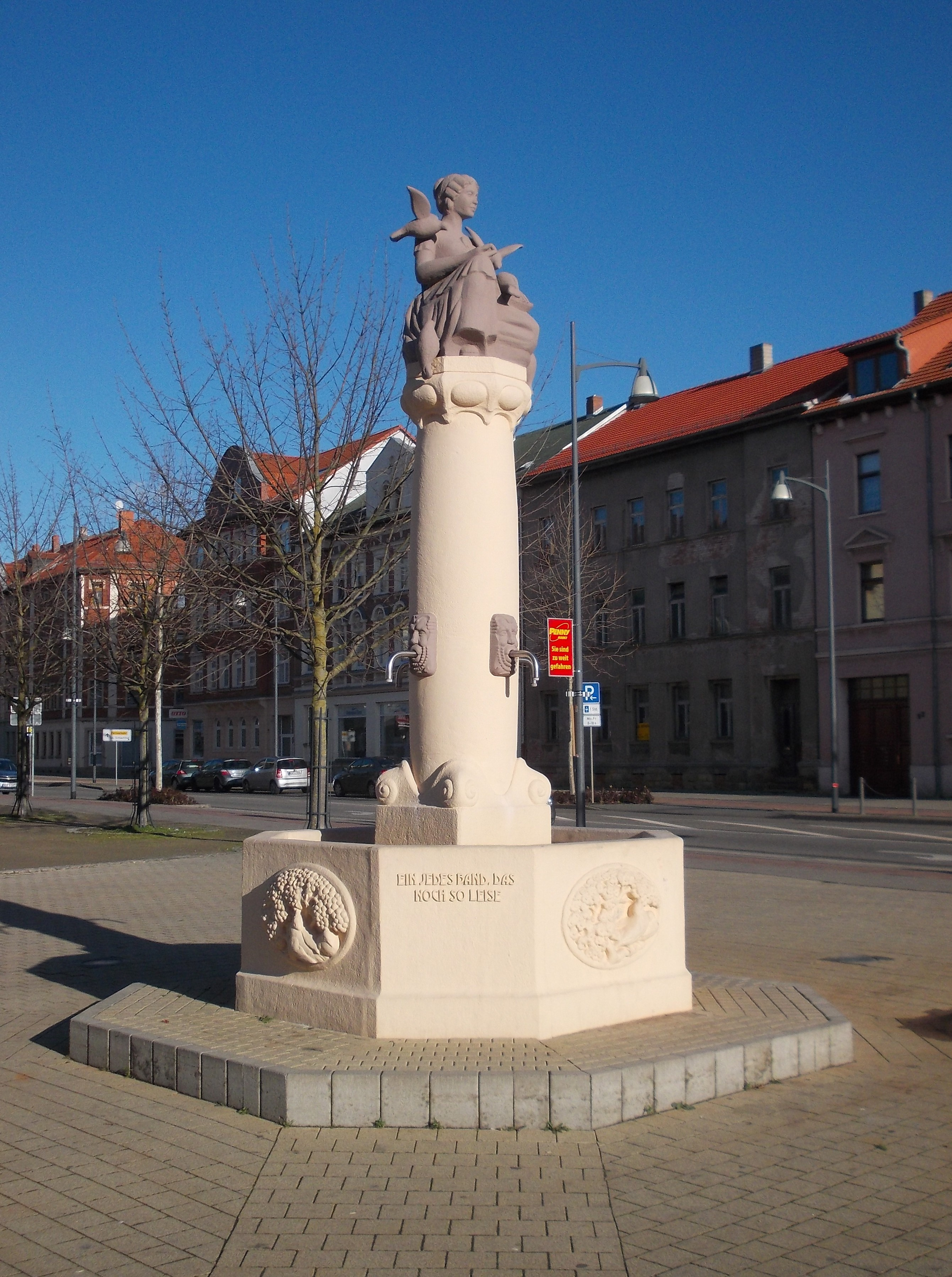 Fairy Tale Fountain in Weissenfels (district: Burgenlandkreis, Saxony-Anhalt)